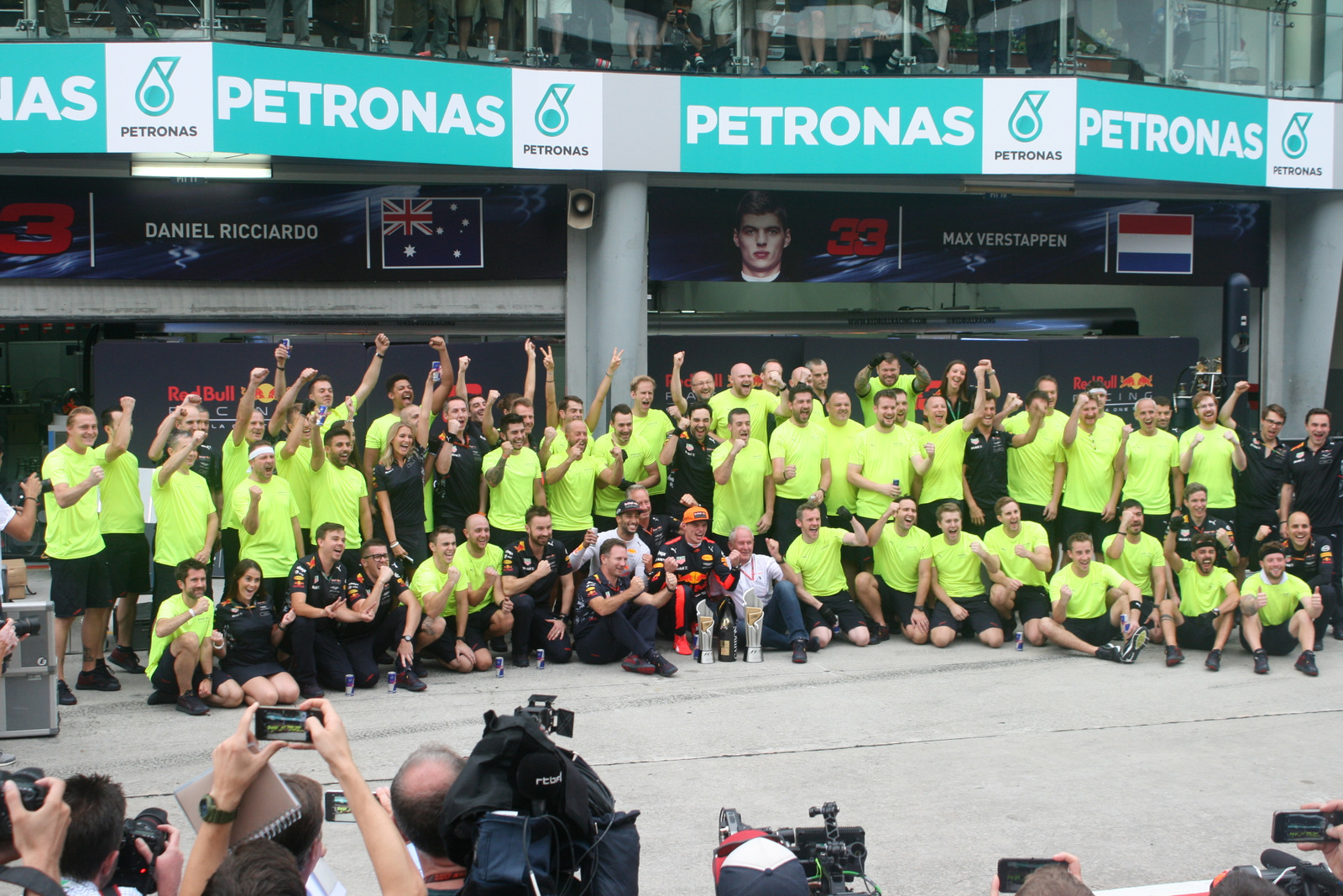 Red Bull Racing celebrate race win, Malaysia GP 2017